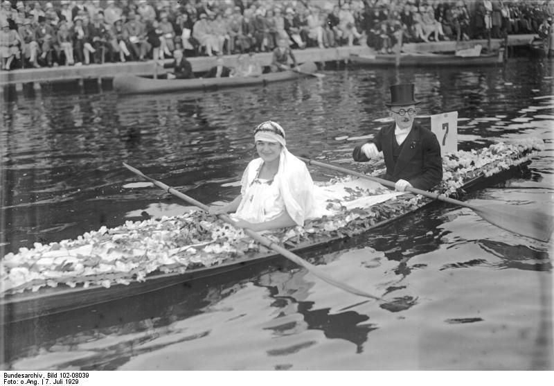 Newlyweds in a flower-decked canoe on the Saale river, during a flower parade held in Halle, Saxony-Anhalt